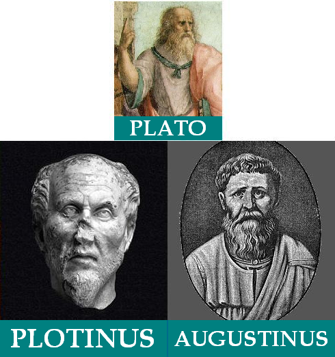 Platonic philosophers: Plato, Plotinus, Augustinus